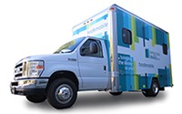 SCCLD Bookmobile photo